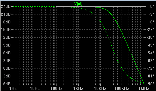 LM741 OpAmp non-inverting, AC analysis